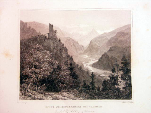 Landeck, Schroffenstein